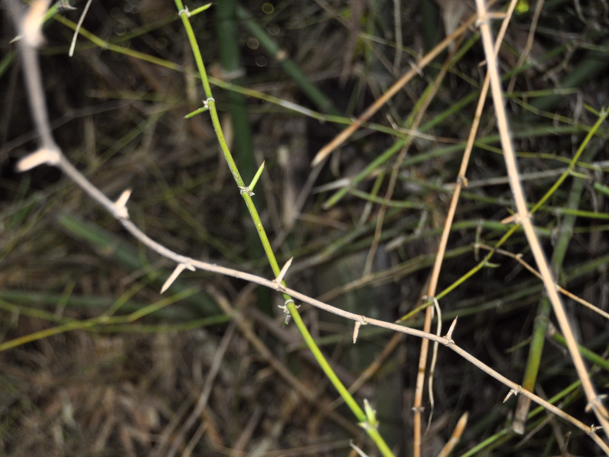 Thorny bamboo, Bambusa blumeana; spiny branches. From Ponorogo, East Java, Indonesia.